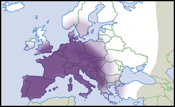 Lucilla scintilla (Lowe, 1852). Distributional range in Europe, scientific state of knowledge of 2012. Source description in English. Light colour indicated rare occurrences or regions where the species could eventually be expected to occur. Dark colour indicated relatively reliable occurrences, as well as regions where the species was expected to occur, and where the species was not known to be extremely rare. Dark colour indications were not necessarily based on published records. Species summary in AnimalBase